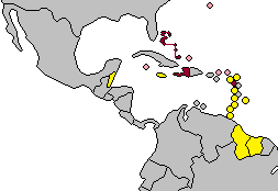 Map of the CARICOM countries that have implemented a common passport Members with common passport implimented Members without common passport Associate members